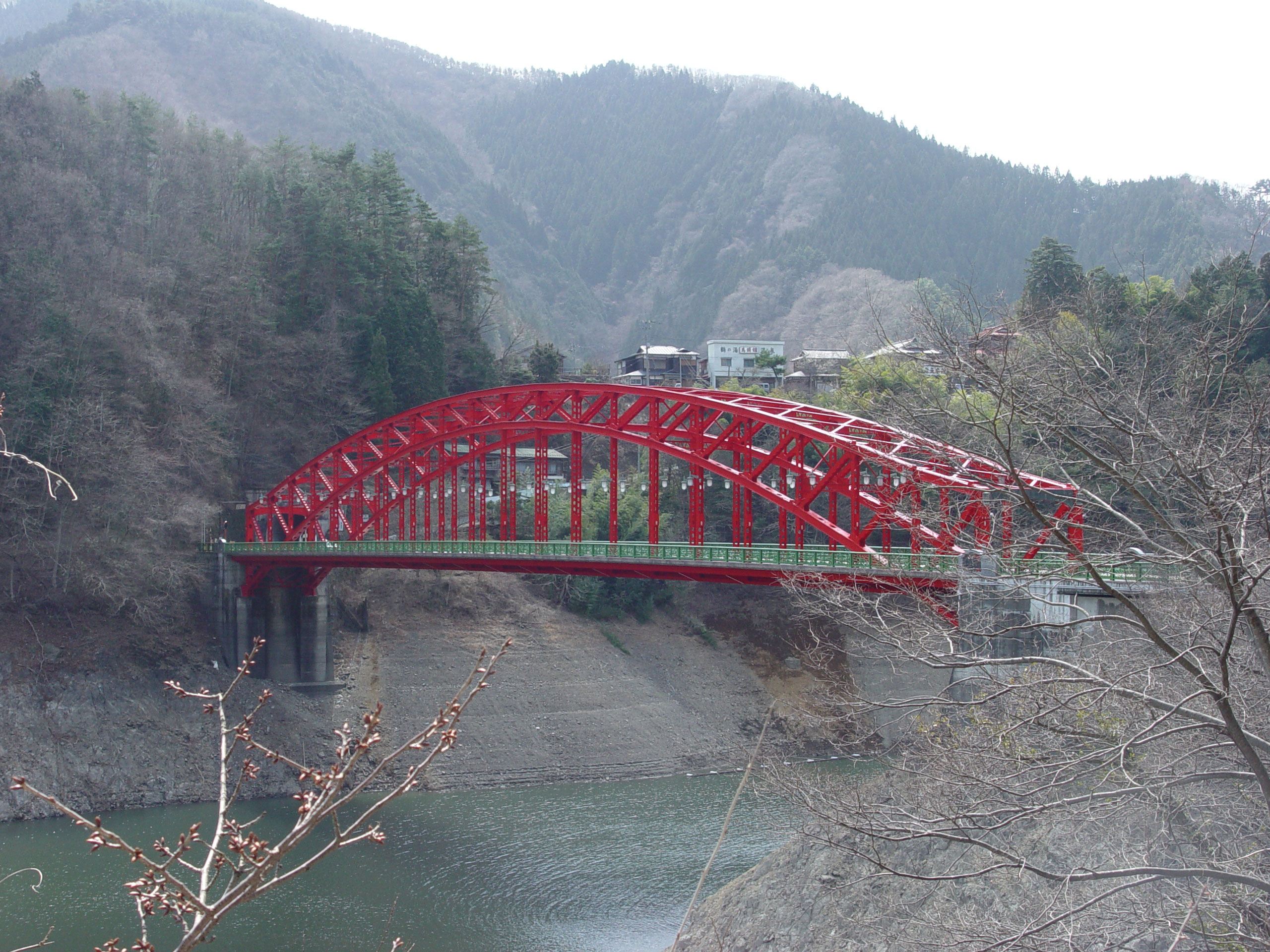 Mineya Bridge, Lake Okutama, Route 411 of Japan